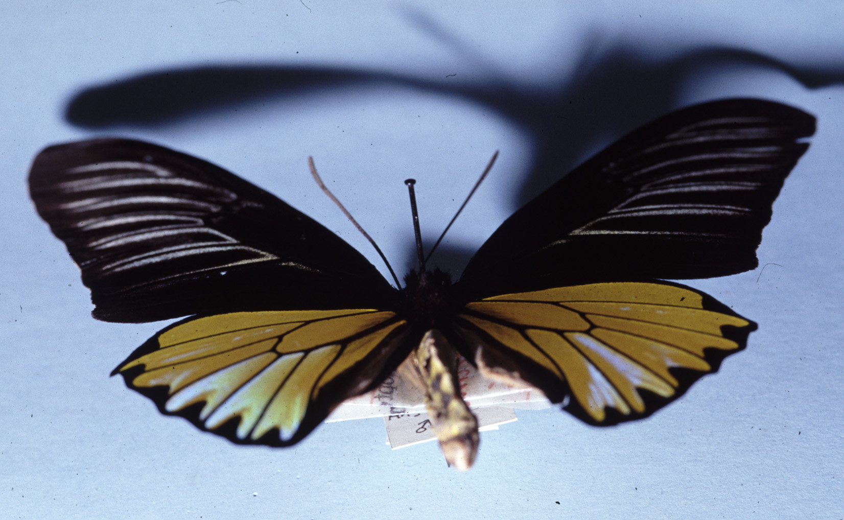 Troides magellanus Male upperside showing limited angle iridescence.